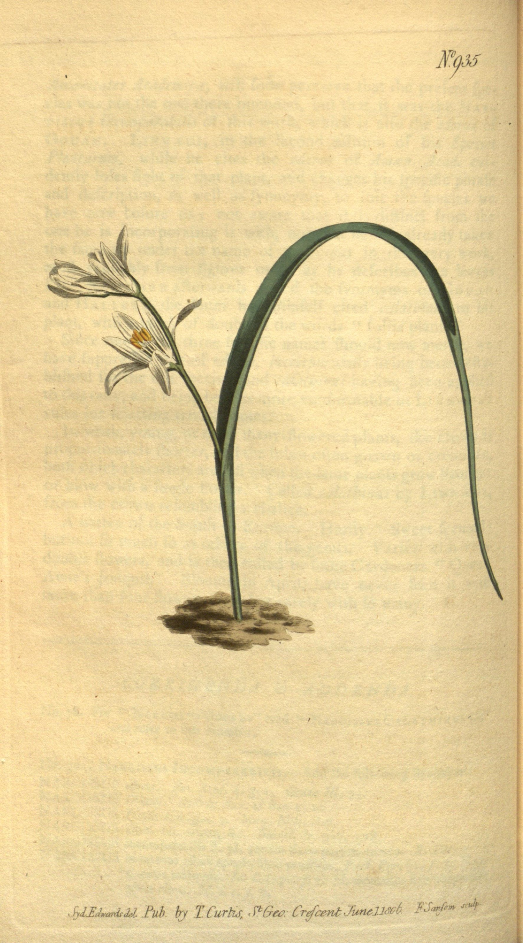 Ity w yllJvanitM fuh hy T. Curtis, xft&eo: Crefcent Jtmell